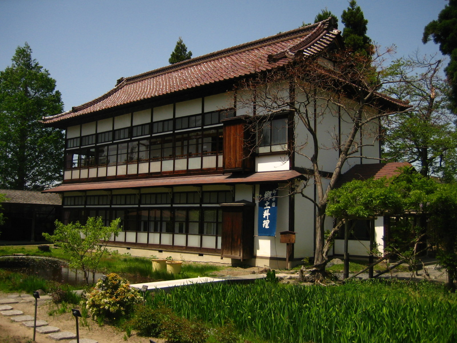 A picture of the Chōyōkaku at Aizu Matsudaira's Royal Garden. Picture was taken with a Canon Power Shot SD450 Digital Elph camera and modified using a paint shop program on a laptop computer.